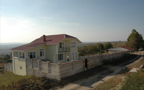 Simon's House from the front of property, Chisinau, Moldova